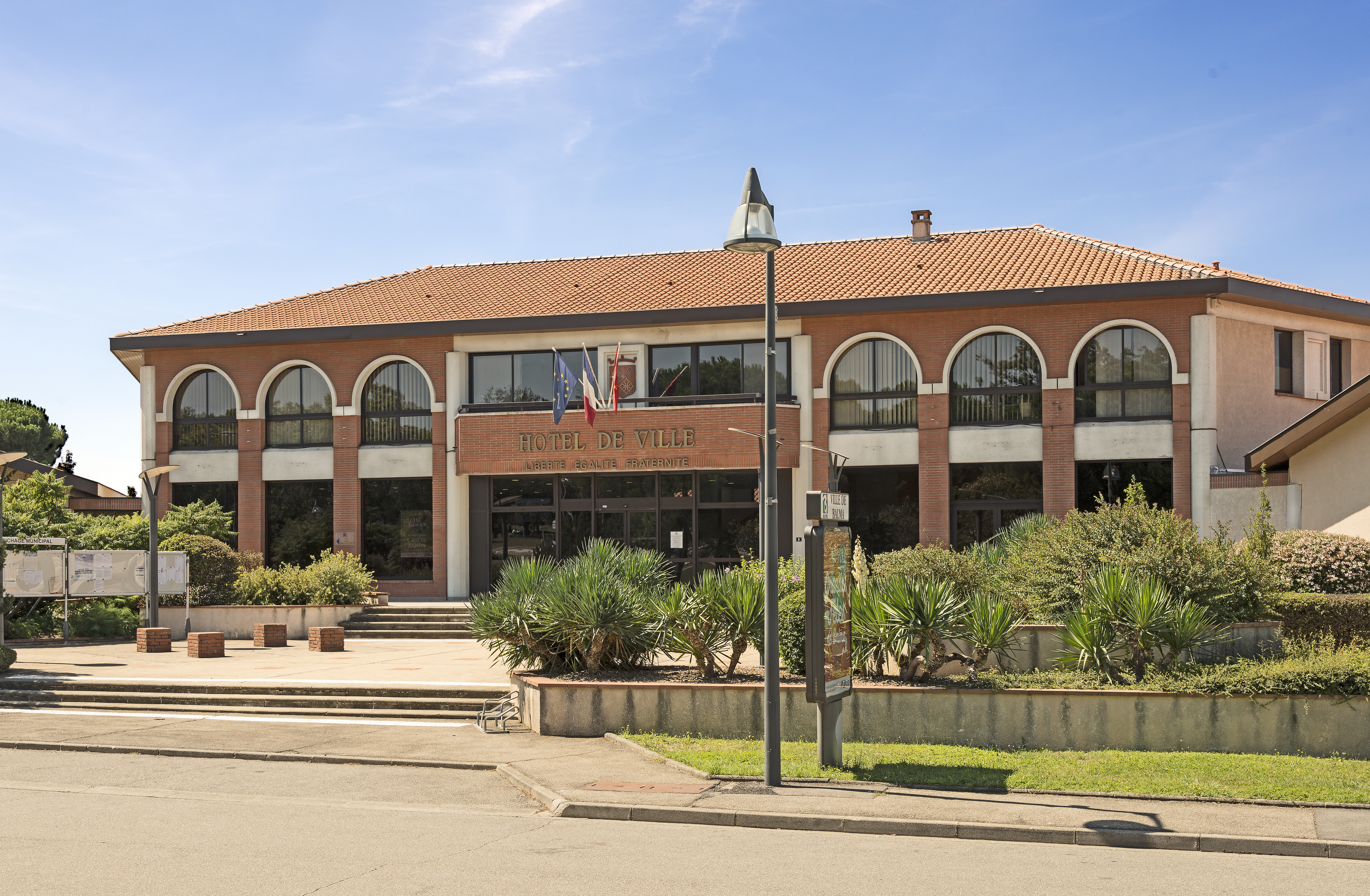 Facade of town hall of Balma, Haute-Garonne, France.